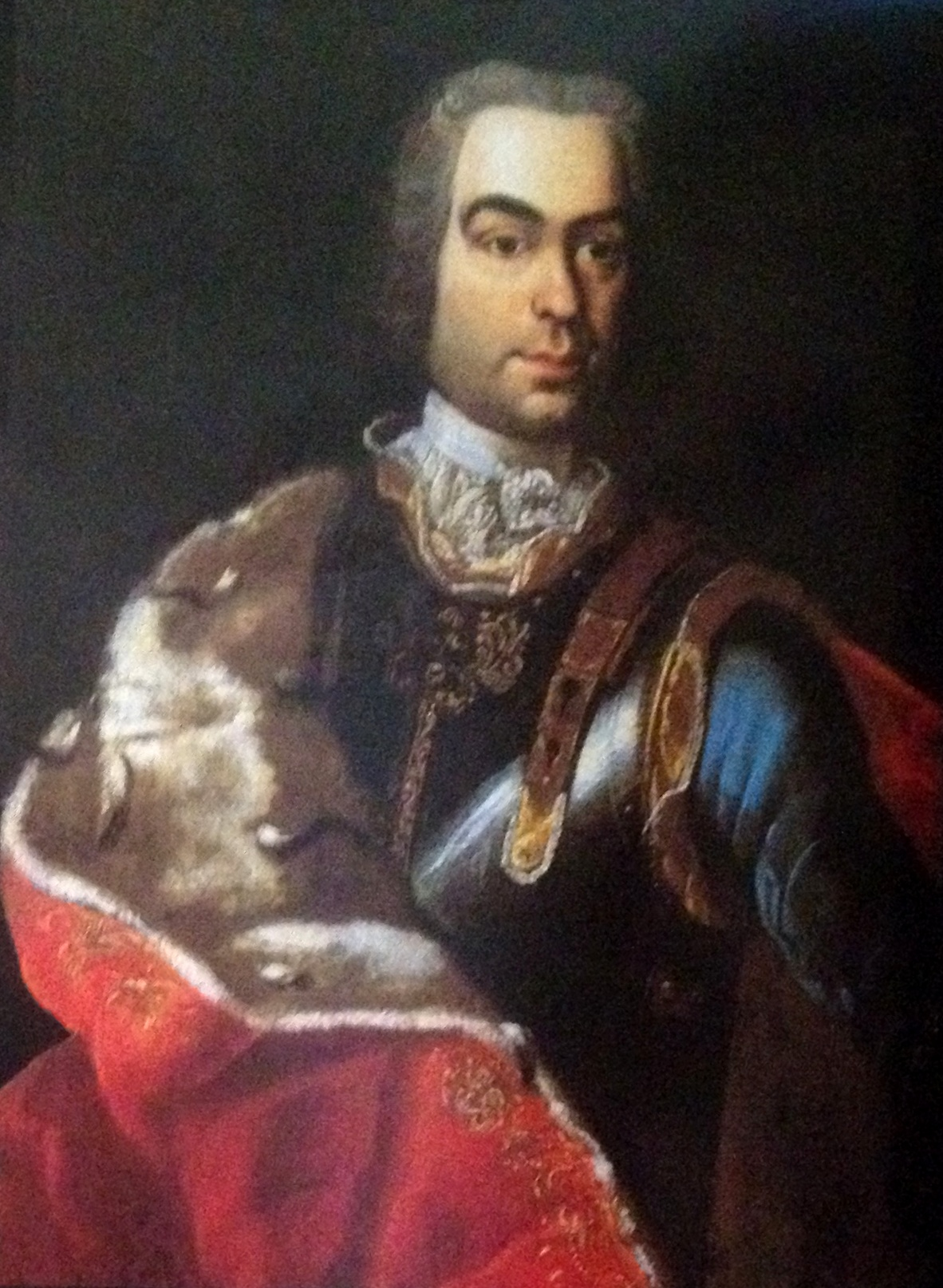 infante